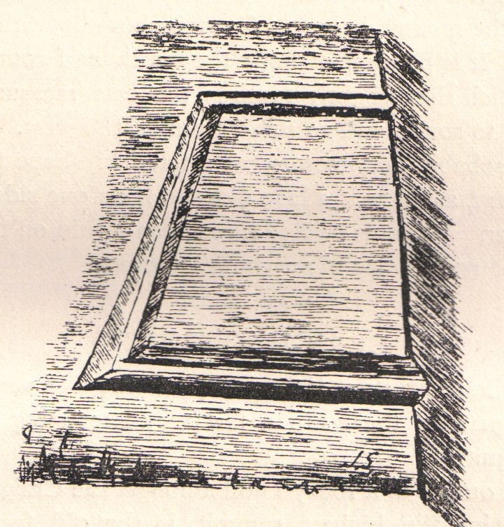 The ditches of Barnweill Castle, South Ayrshire, Scotland.